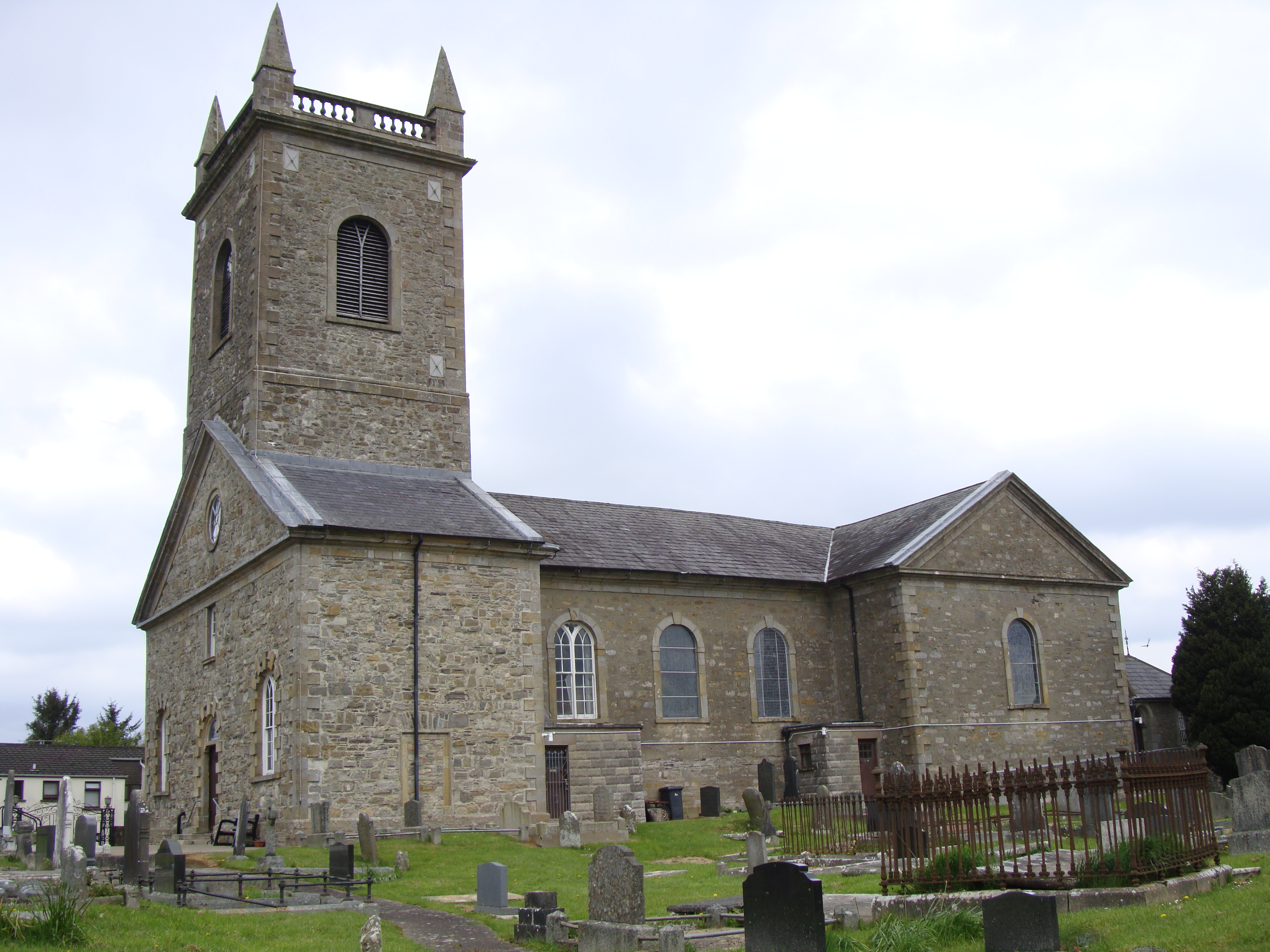 Photograph of St Macartan's Cathedral, Clogher, Co. Tyrone, Northern Ireland